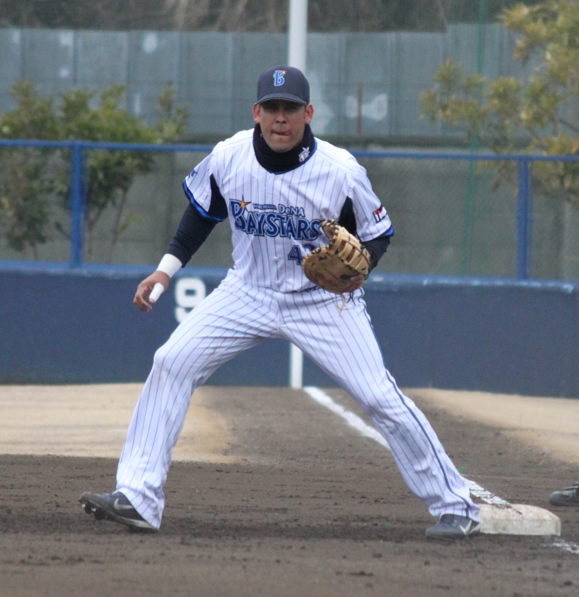 Oscar Salazar, infielder of the Yokohama DeNA BayStars, at Yokohama DeNA BayStars Baseball Integrated training field.